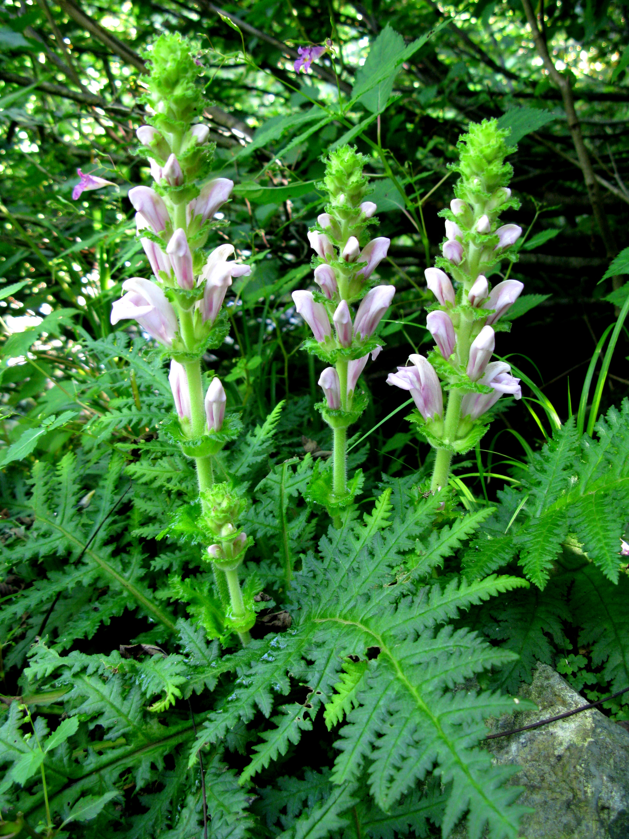 Pedicularis nipponica, Aizu area, Fukushima pref., Japan